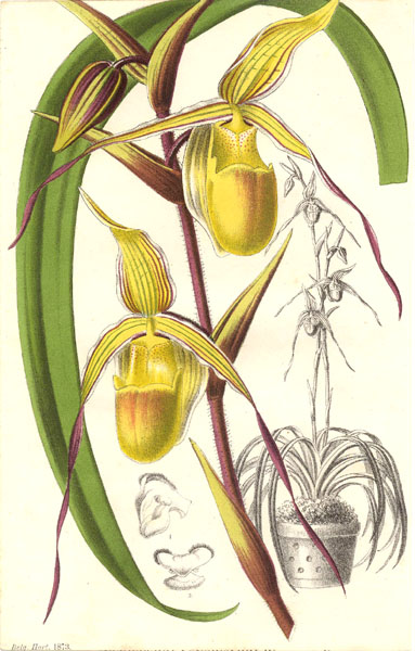 Illustration of Phragmipedium longifolium